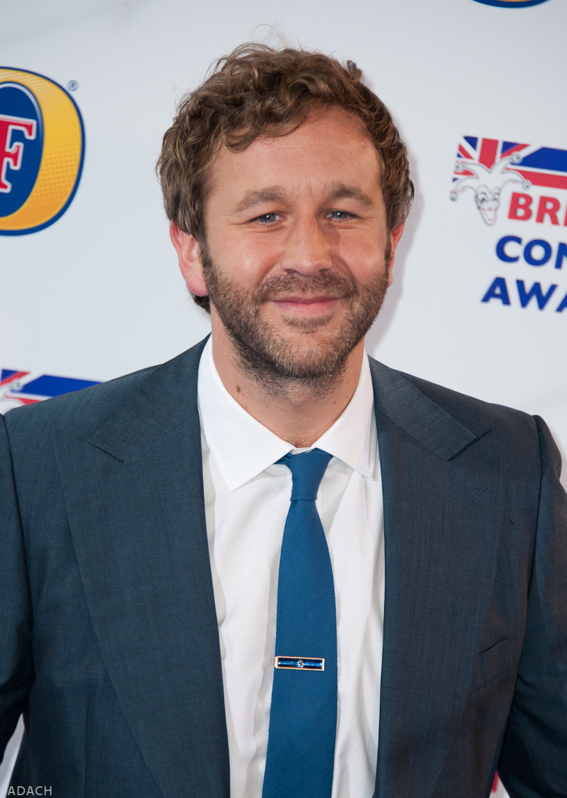 Chris O'Dowd at the 2013 British Comedy Awards, 12 December 2013